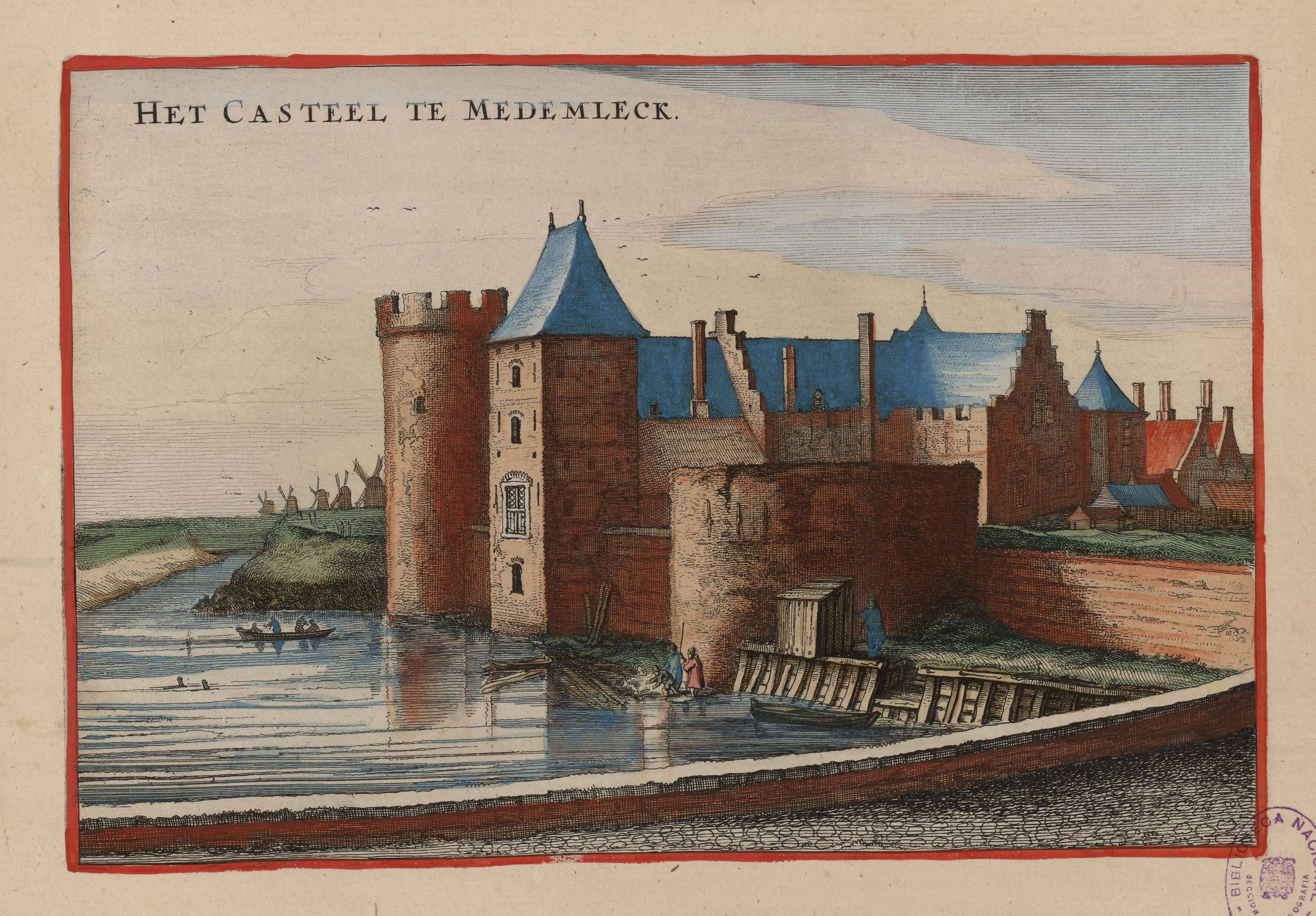 Medemblik Castle in North Holland on an engraving published by Johannes Blaeu.